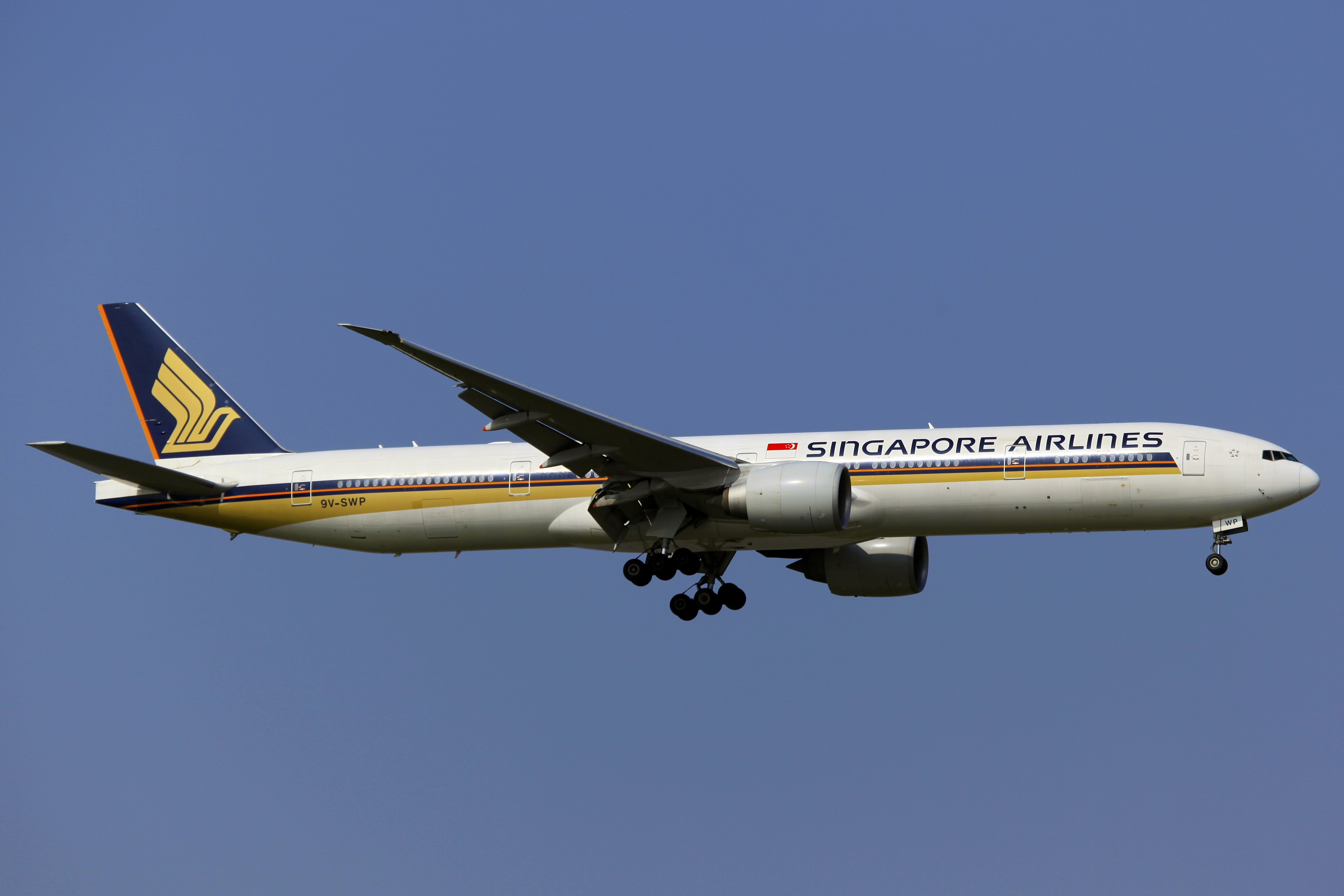 9V-SWP | Singapore Airlines | Boeing 777-312(ER) | Shanghai Pudong International Airport [PVG]